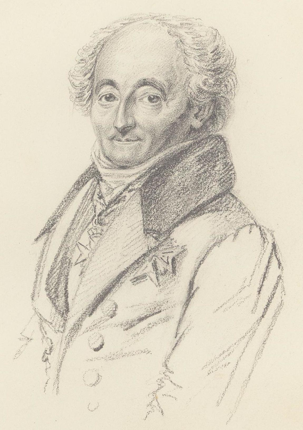 Diplomat and writer Carl Gustaf von Brinkman (1764-1847. This drawing by Maria Röhl is available at the Royal Library in Stockholm.)